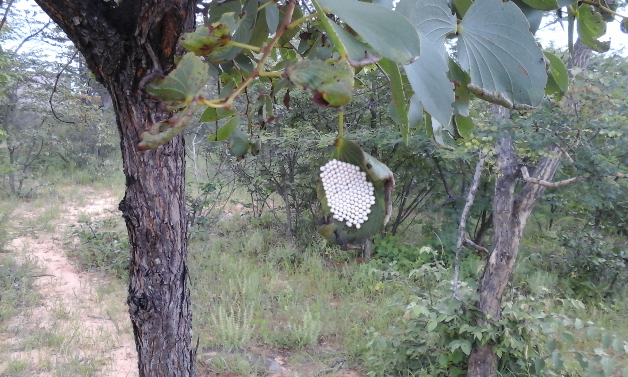 These are the Mophane Worm eggs